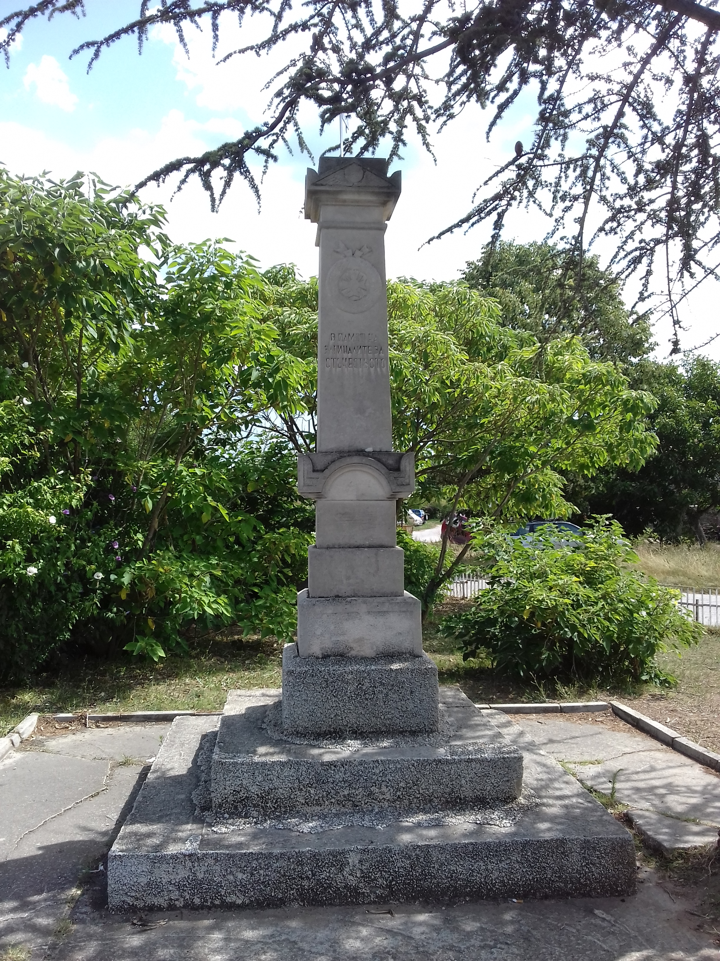 Slanchevo, Varna Province, Bulgaria